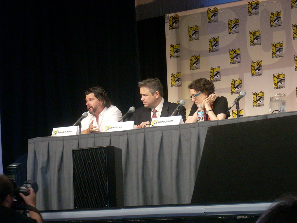 Comic-Con 2009 - Battlestar Galactica: The Plan & Caprica panel - San Diego, Calif. - July 24, 2009